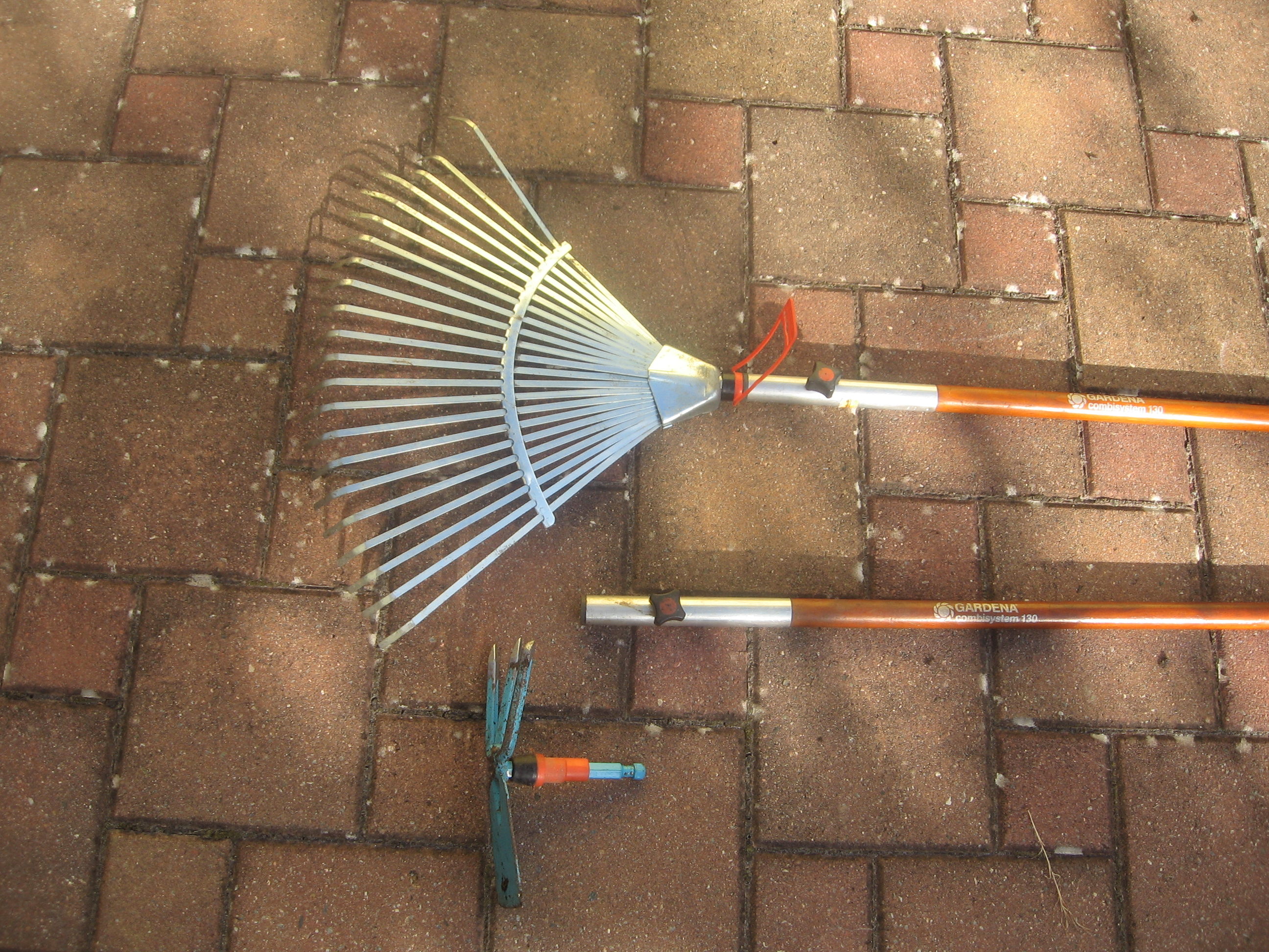 A handle with interchangeable garden tools.